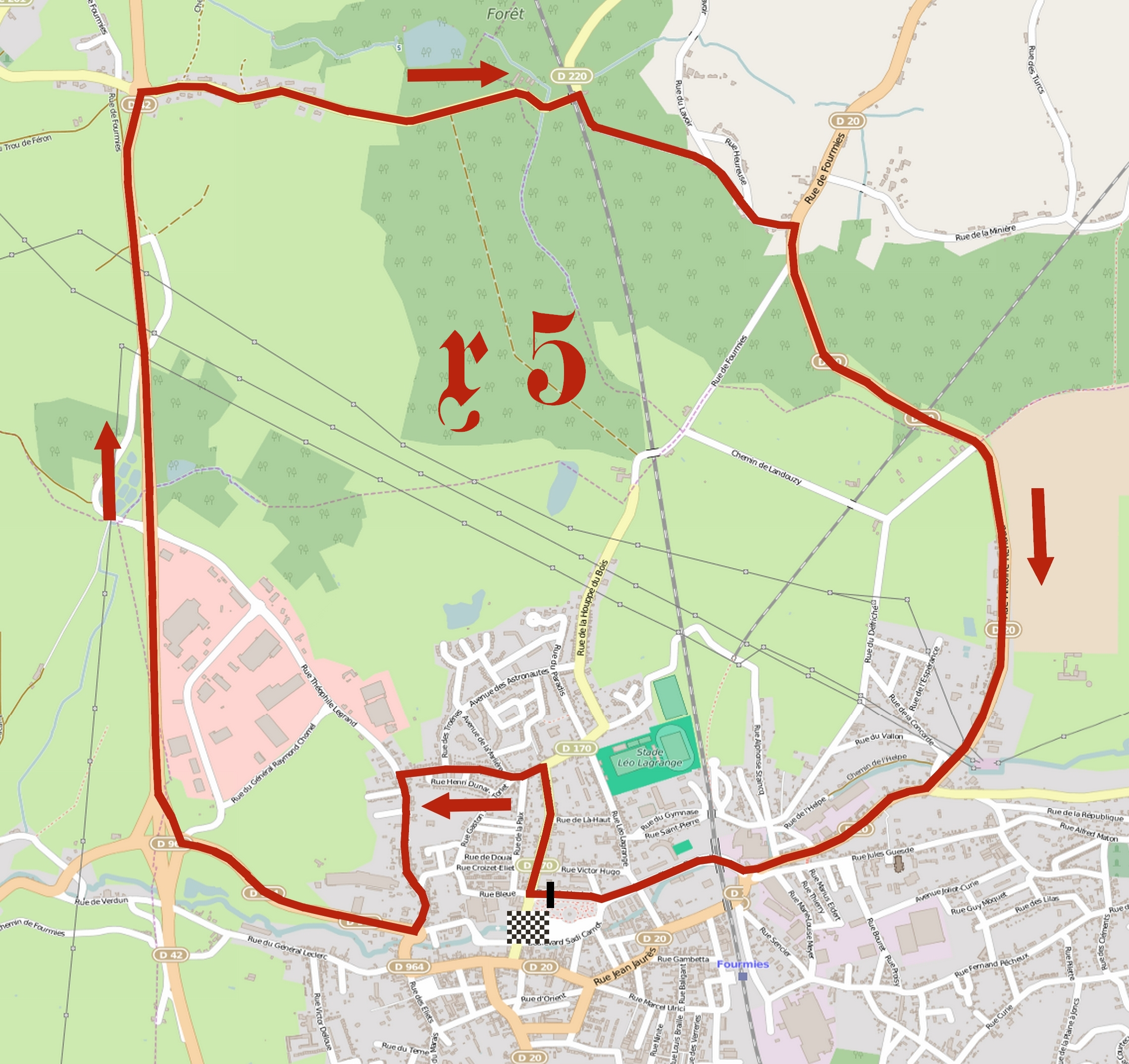 Parcours du circuit local du Grand Prix de Fourmies 2015. This map may be incomplete, and may contain errors. Don't rely solely on it for navigation.